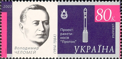 Stamp of Ukraine